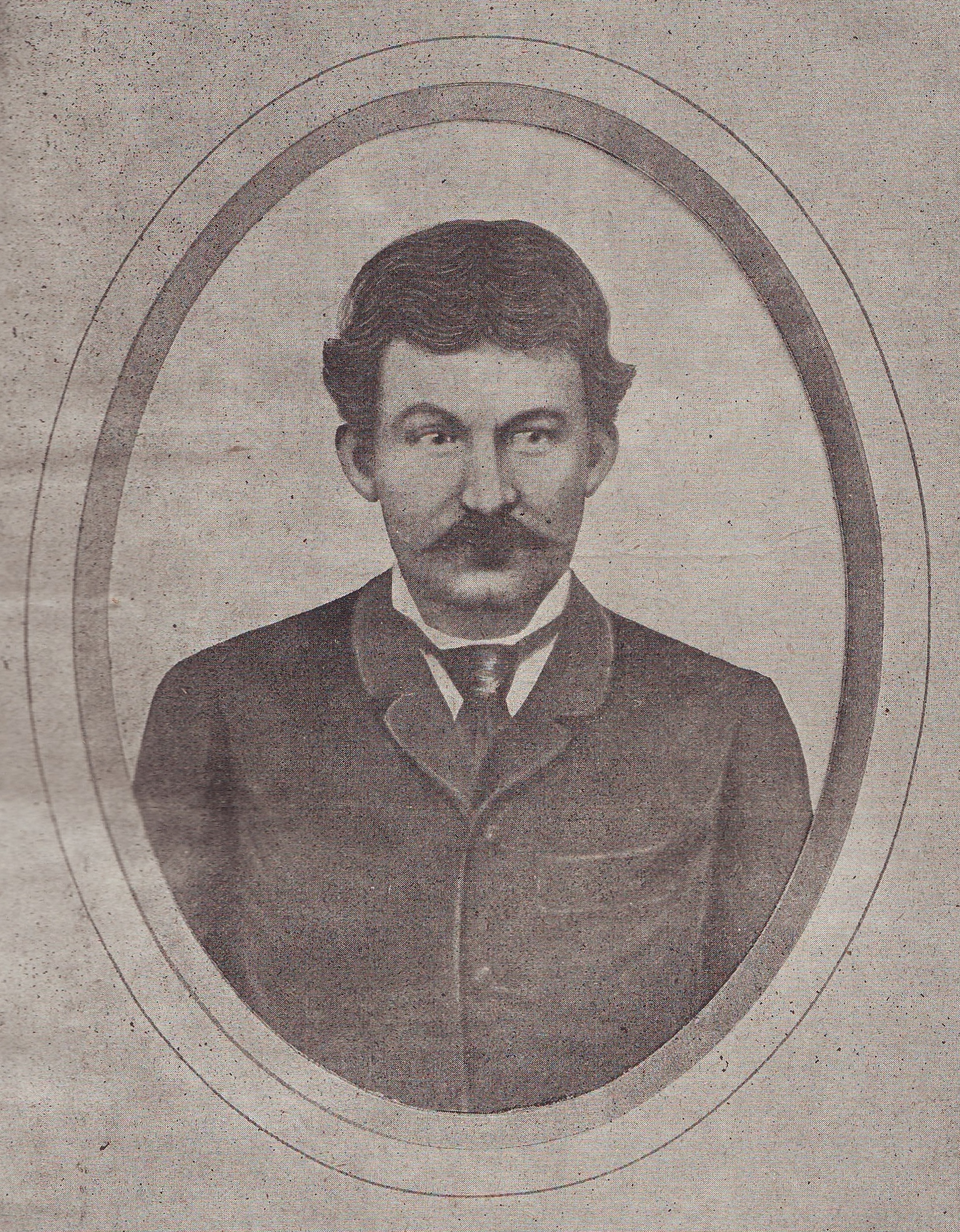 Laza Nančić (1854-1887), Serbian socialist, journalist and writer. Taken from the 1906 edition of the calendar Rad. Srpski (latinica): Laza Nančić (1854-1887), srpski socijalista, novinar i pisac. Preuzeto iz izdanja kalendara Rad za 1906. godinu.